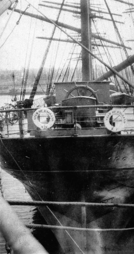 Star of England (ship) Ship: Star of England Rig: Three-masted bark Hull: Steel Launched: 1893 Fate: Converted to barge 1935, unknown thereafter Builder: A. McMillan & Son, Dumbarton Dimensions: 264’ x 39’ x 23.5’ Tonnage: 2123 tons [1] ↑ Dyal, Donald H (2008). Alaska Packers Association: Narrative. .pdf file. Texas Tech University Digital Collections. Retrieved on March 15, 2011.